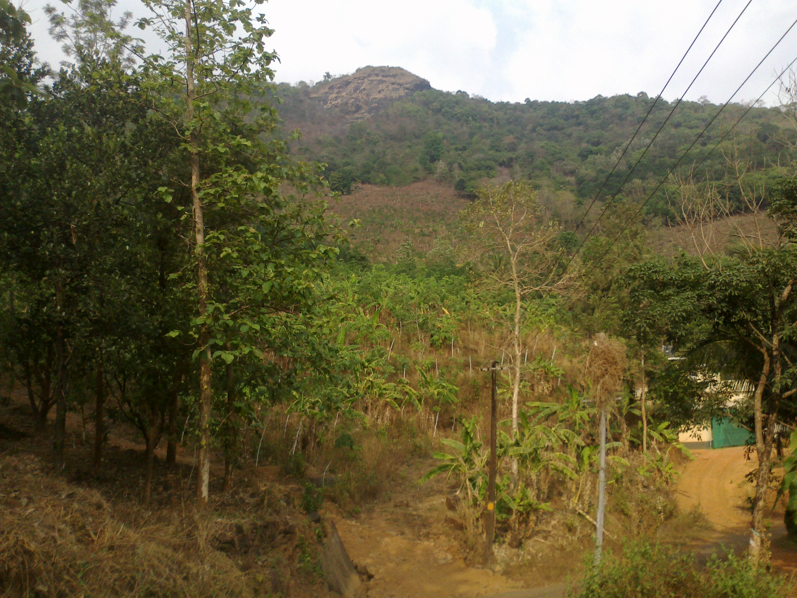 Elapeedika